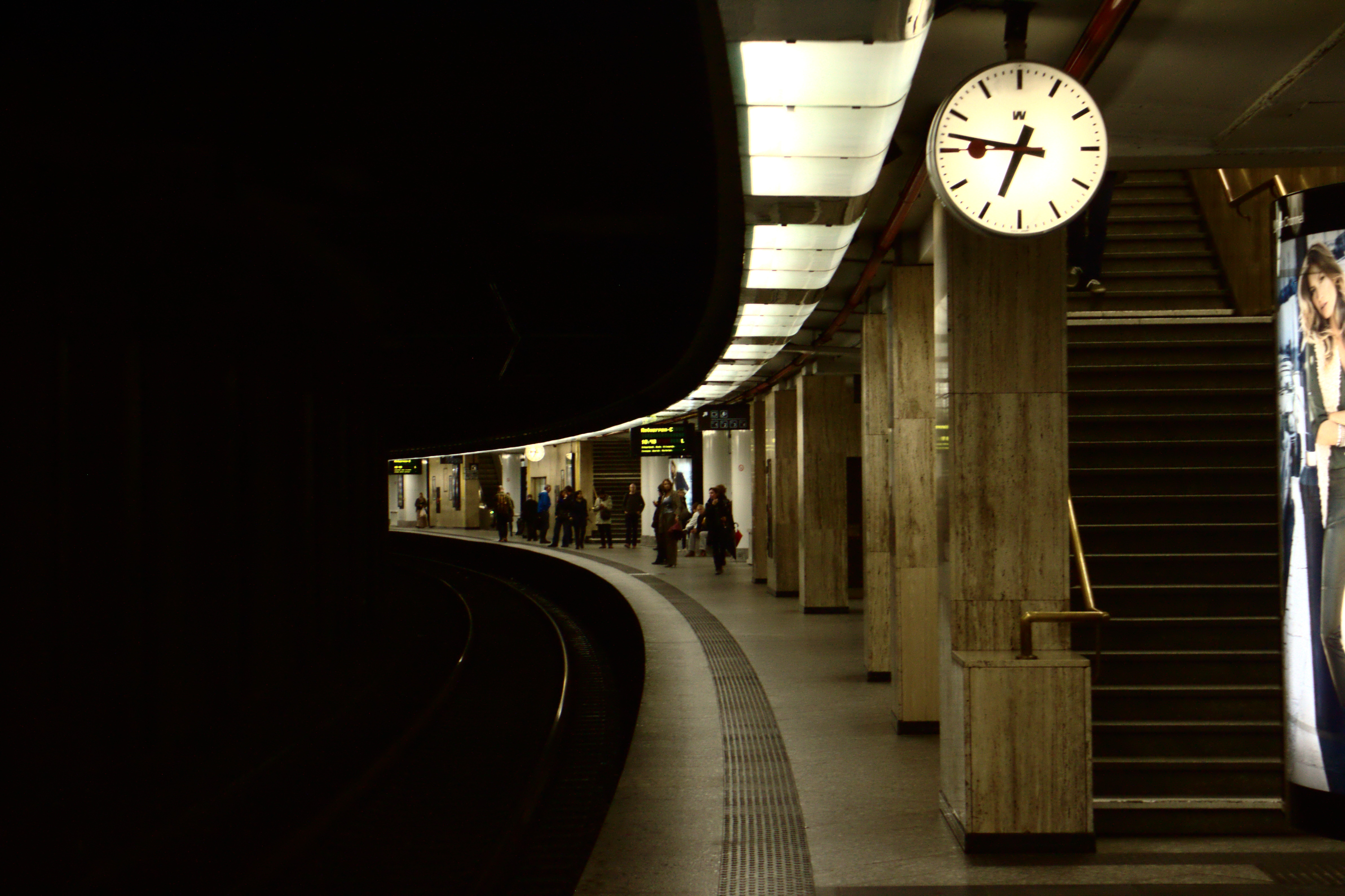 Train station Brussel-Centraal, Belgium